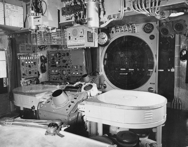 View of the combat information center (CIC) of the U.S. light aircraft carrier USS Independence (CVL-22) during the Second World War.